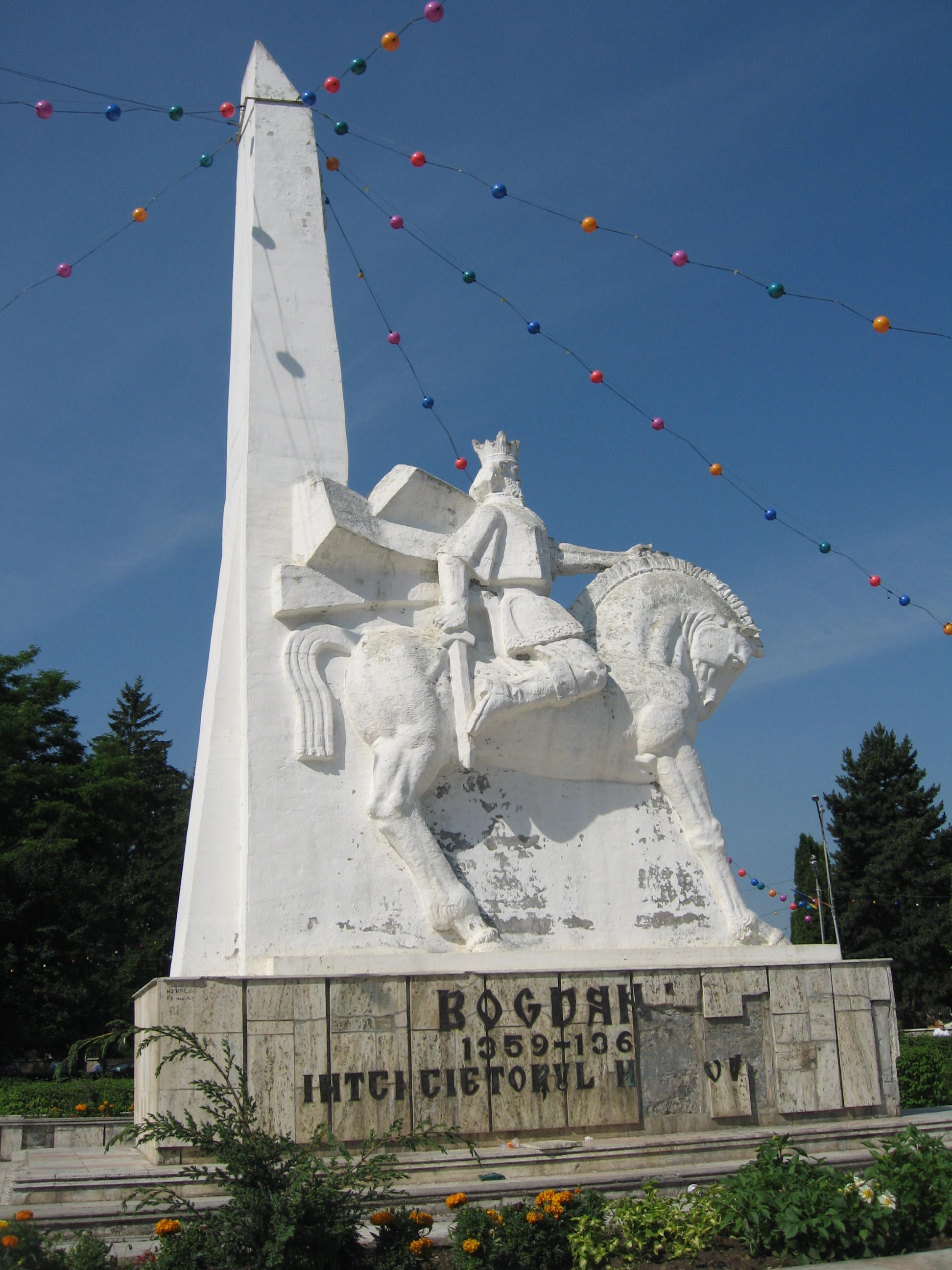 Statuia ecvestră a lui BogdanI